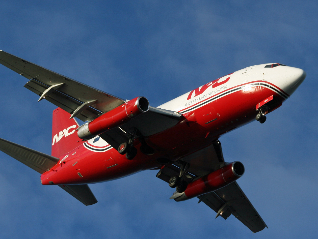 I took this photo in July 2010 during a photo shoot at Anchorage Airport, Alaska.